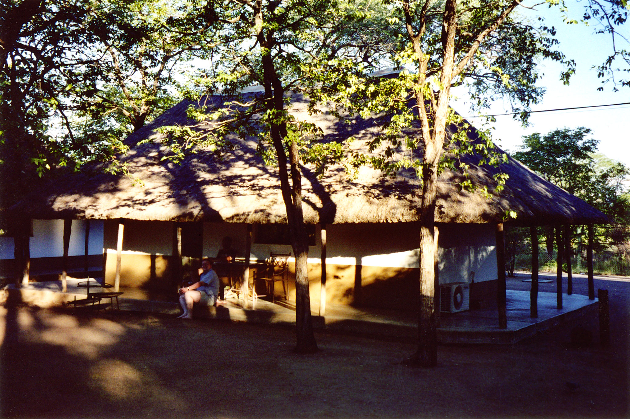 House at Shingwedzi